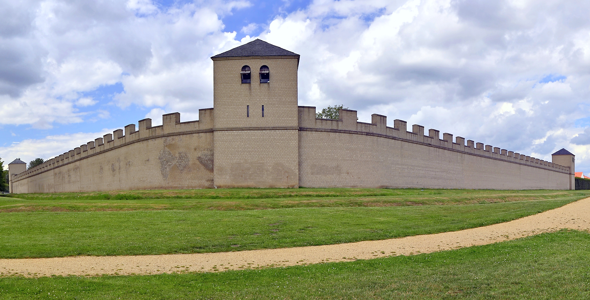 Roman Castle at Xanten